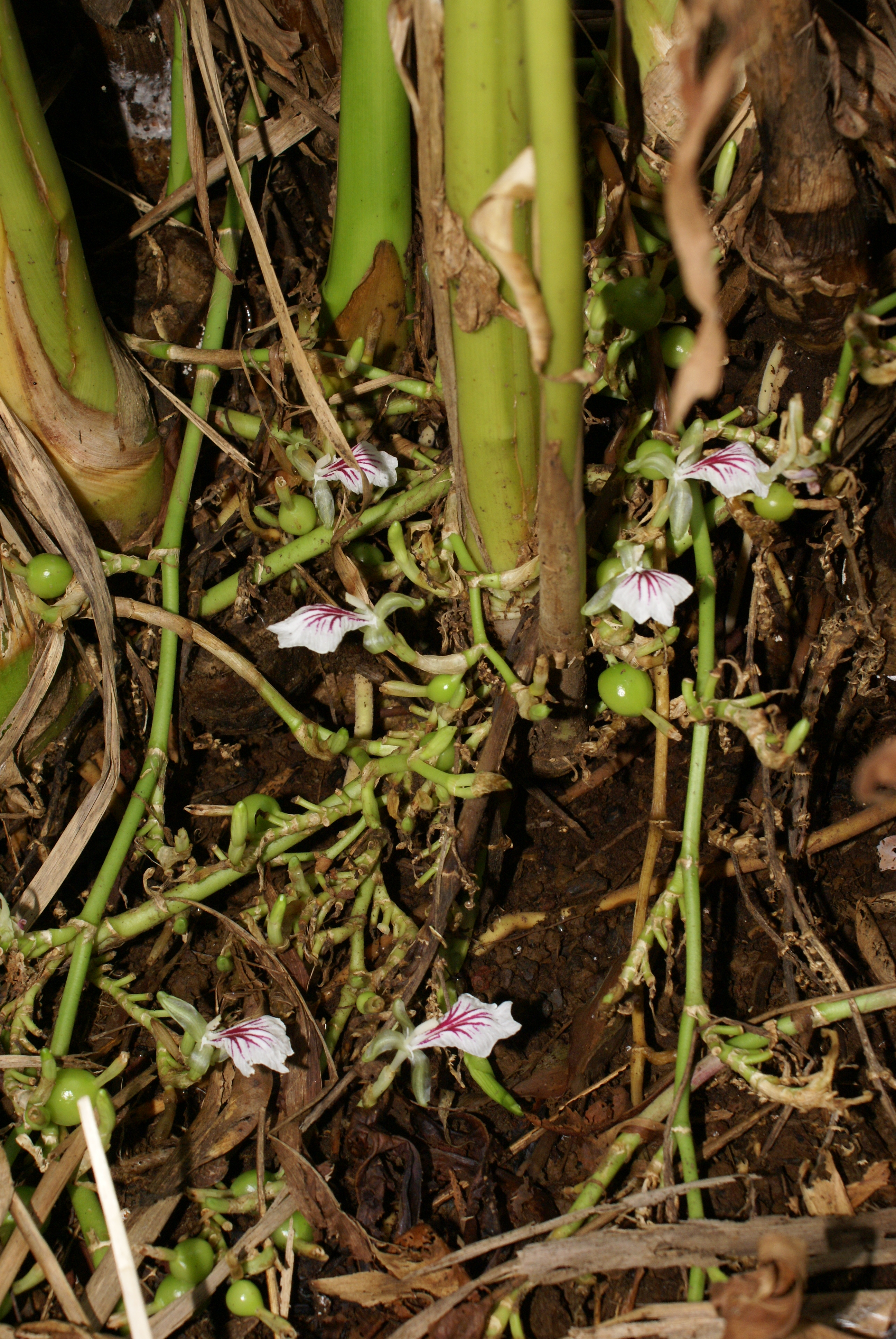 Elettaria cardamomum flowers